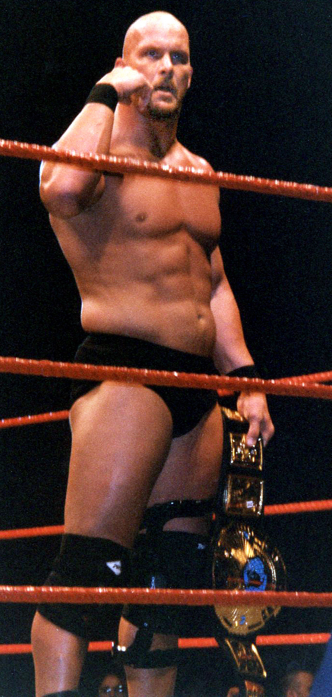 Steve Austin readies himself to defend his WWF Championship against the Rock. Taken 4/2/1999 in Sheffield, England.